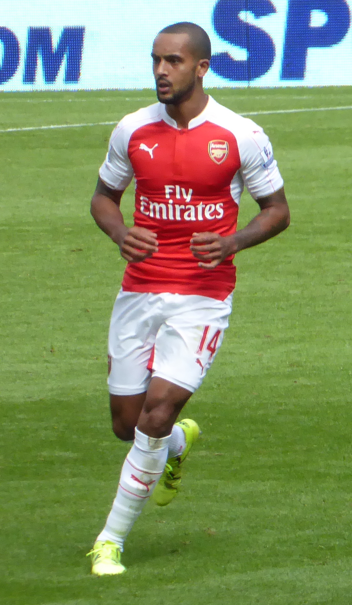 Newcastle United vs Arsenal (0-1), St James' Park, Newcastle upon Tyne, Tyne and Wear, England, August 2015 (cropped)